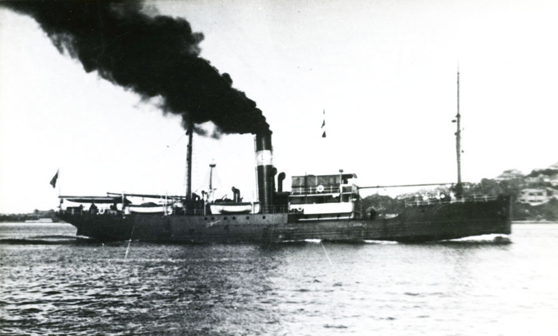 683 GRT passenger and cargo steamship Dorrigo. Smith's Dock of Middlesbrough built her in 1913 as Saint François for Cie. Navale de l'Océanie of Bordeaux. Langley Brothers of Sydney, NSW bought her in 1922 and renamed her Dorrigo. North Coast Steam Navigation Co acquired the ship when it took over Langley Bros in 1925. John Burke of Brisbane bought Dorrigo from North Coast Steam Navigation later in 1925. On 2 April 1926 en route from Sydney to Thursday Island she sank off Double Island Point, Queensland.